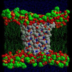 Alamethicin ion channel